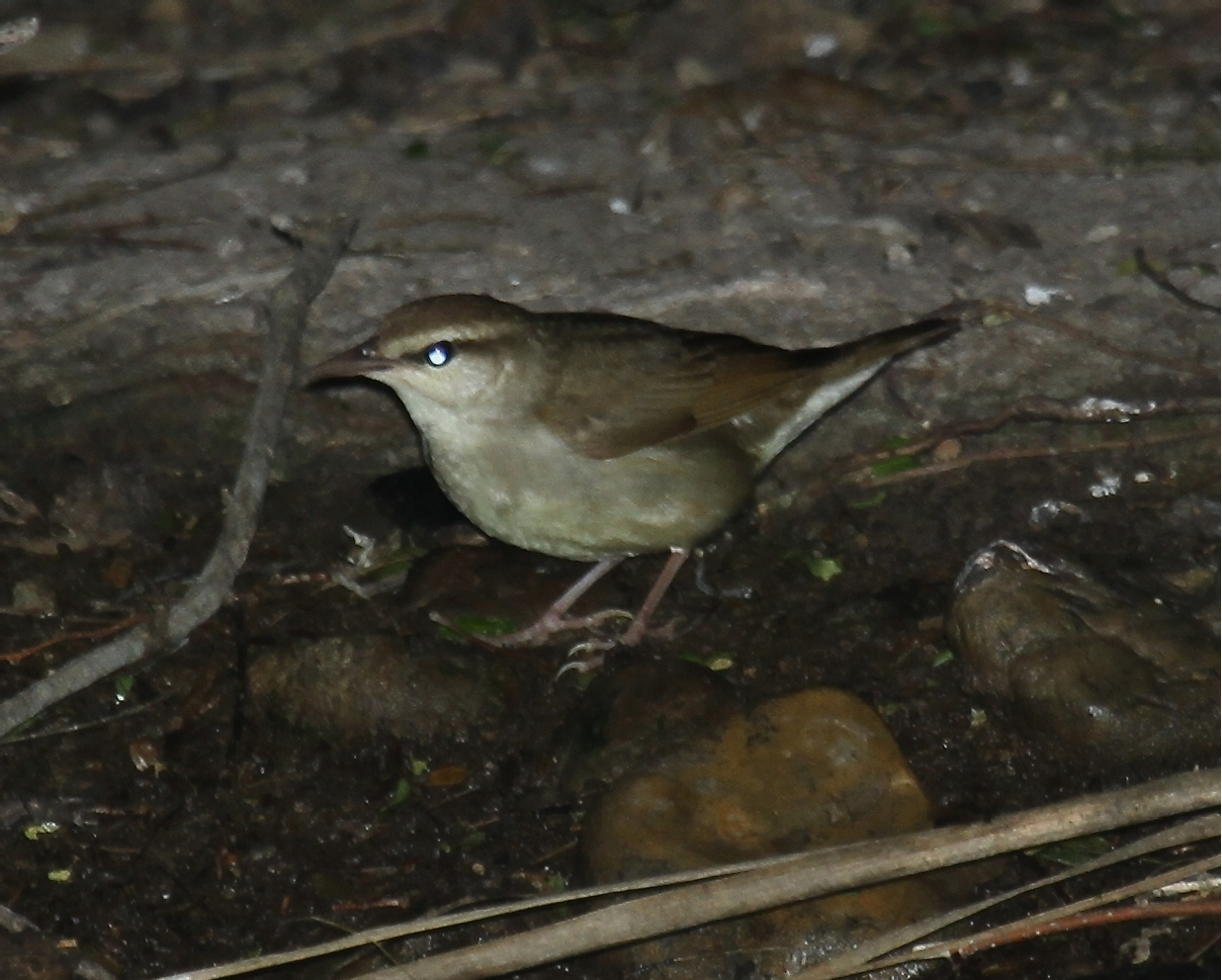 "Sheepshead" sanctuary - Texas (flash photo )